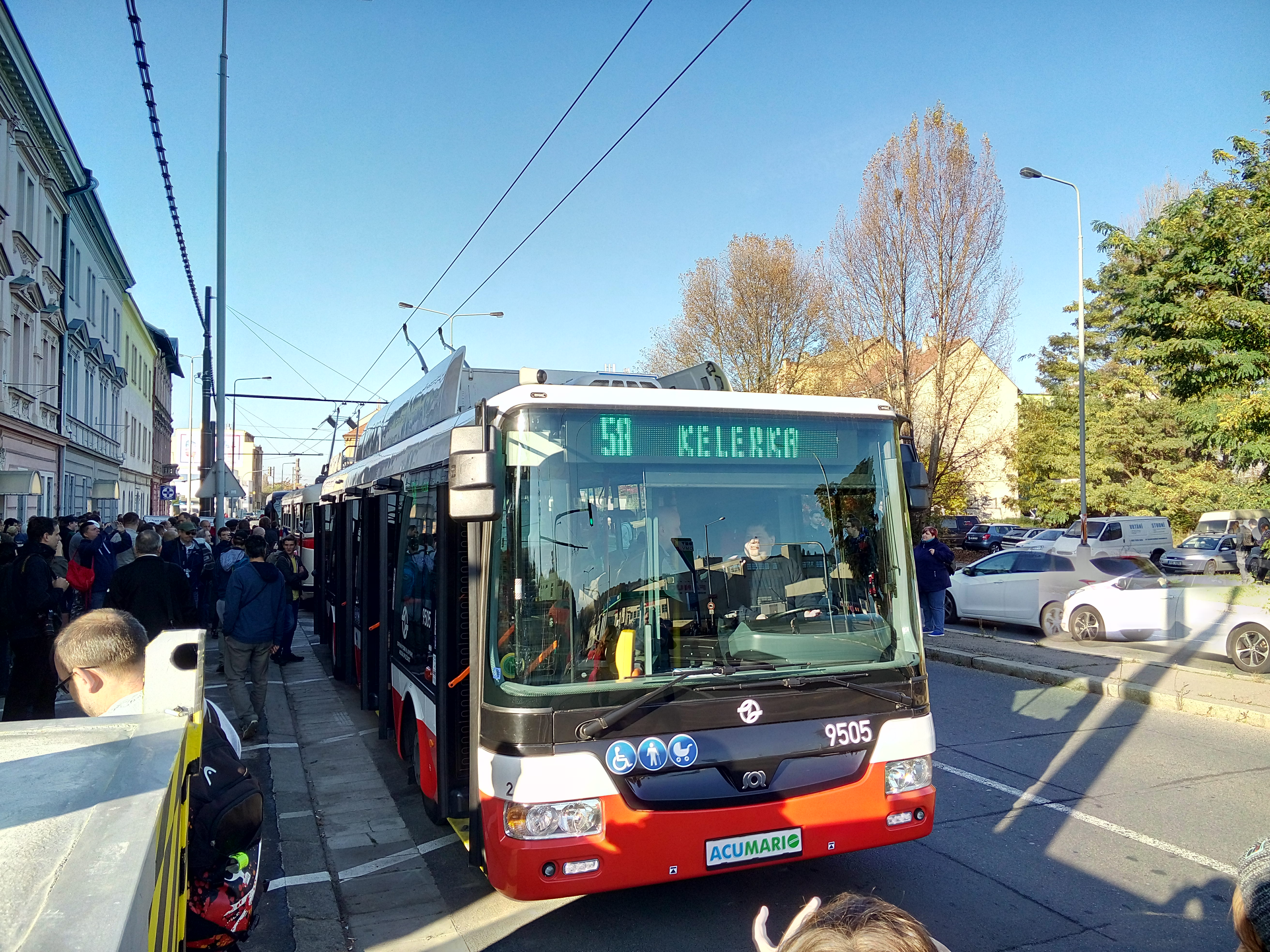 First day with passengers for the first Prague's trolleybus SOR TNB 12 for the rebuilt trolleybus network.